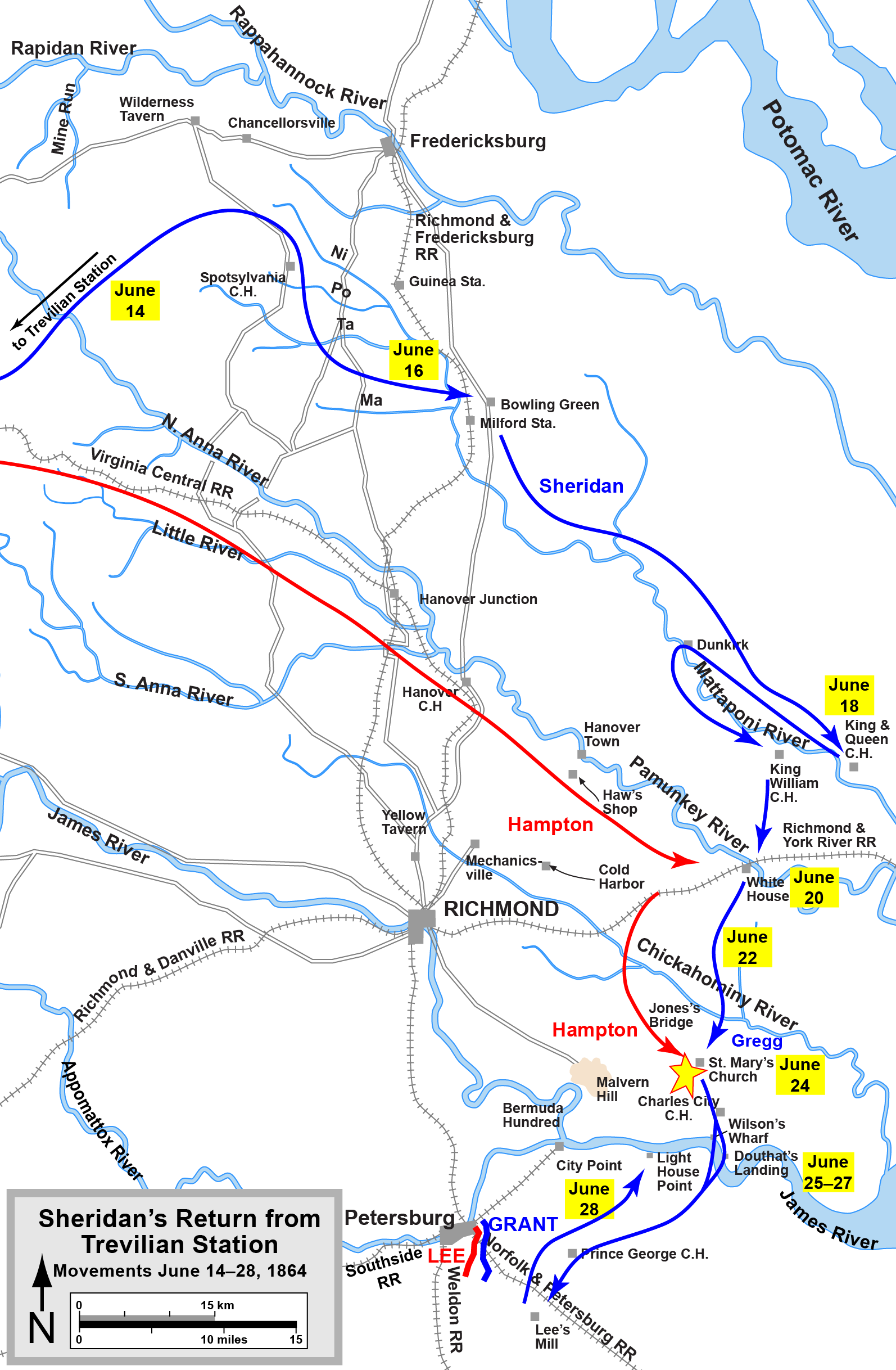 Map of Philip Sheridan's return from the Trevilian Station raid of the American Civil War, including the Battle of Saint Mary's Church, drawn in Adobe Illustrator CS5 by Hal Jespersen. Graphic source file is available at